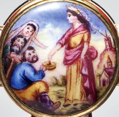 Originalmedaillon des kurpfälzischen, später bayerischen Elisbethenorden (Entwurf 1767, vorliegende Ausführung um 1900)